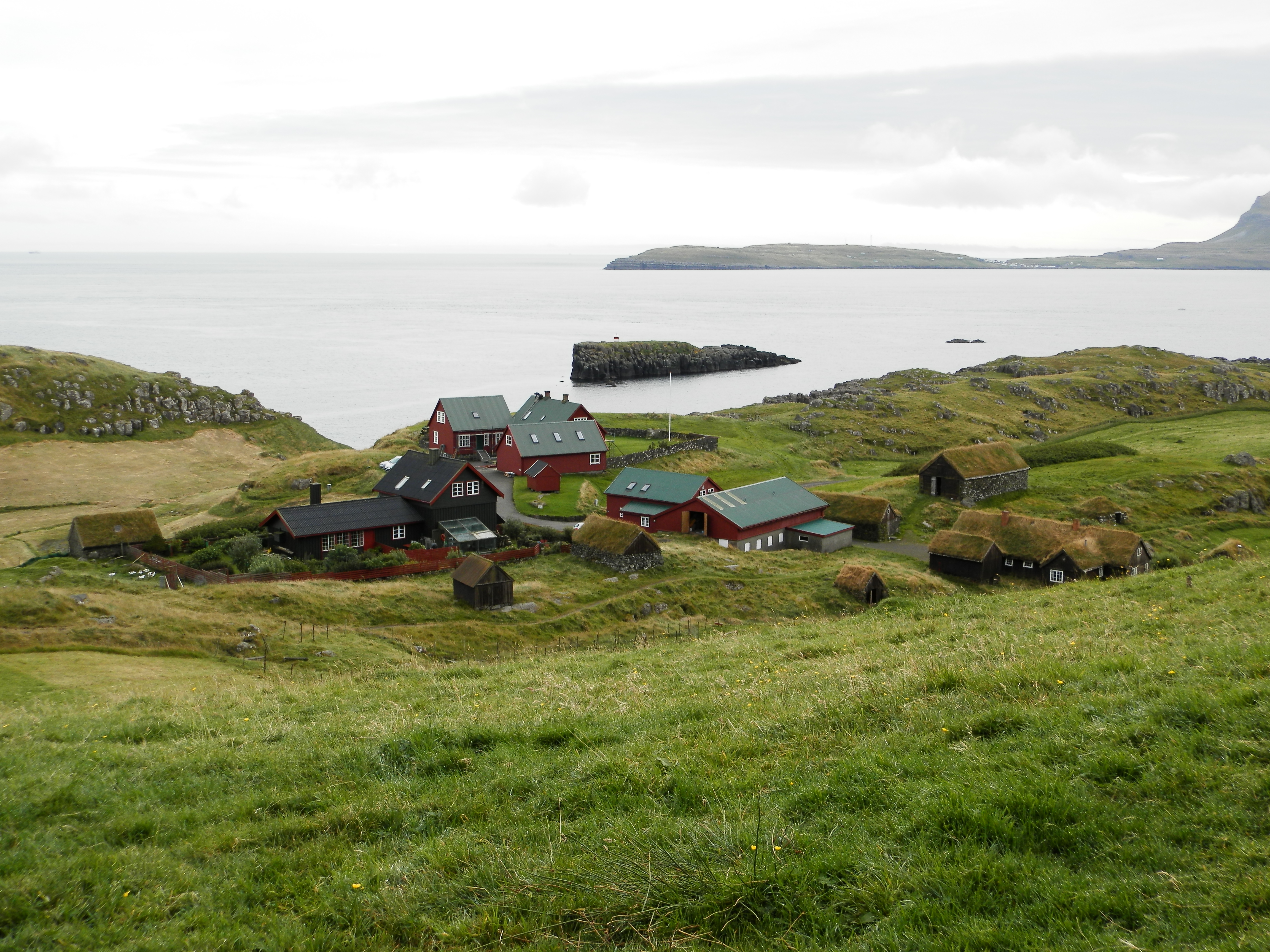 View from Hoyvík over Nólsoyarfjord, Nólsoy (the island) and Hoyvíkshólmur (the small islet). Hoyvík is just north of Tórshavn and a part of Tórshavn municipality. This is the old part of Hoyvík, where the outdoor museum is located.